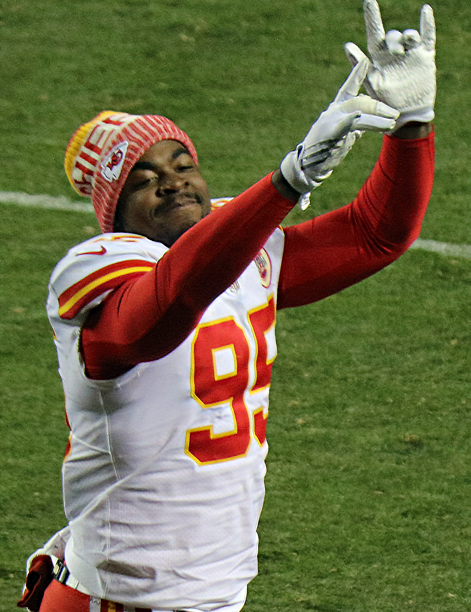 Chris Jones, a National Football League player.